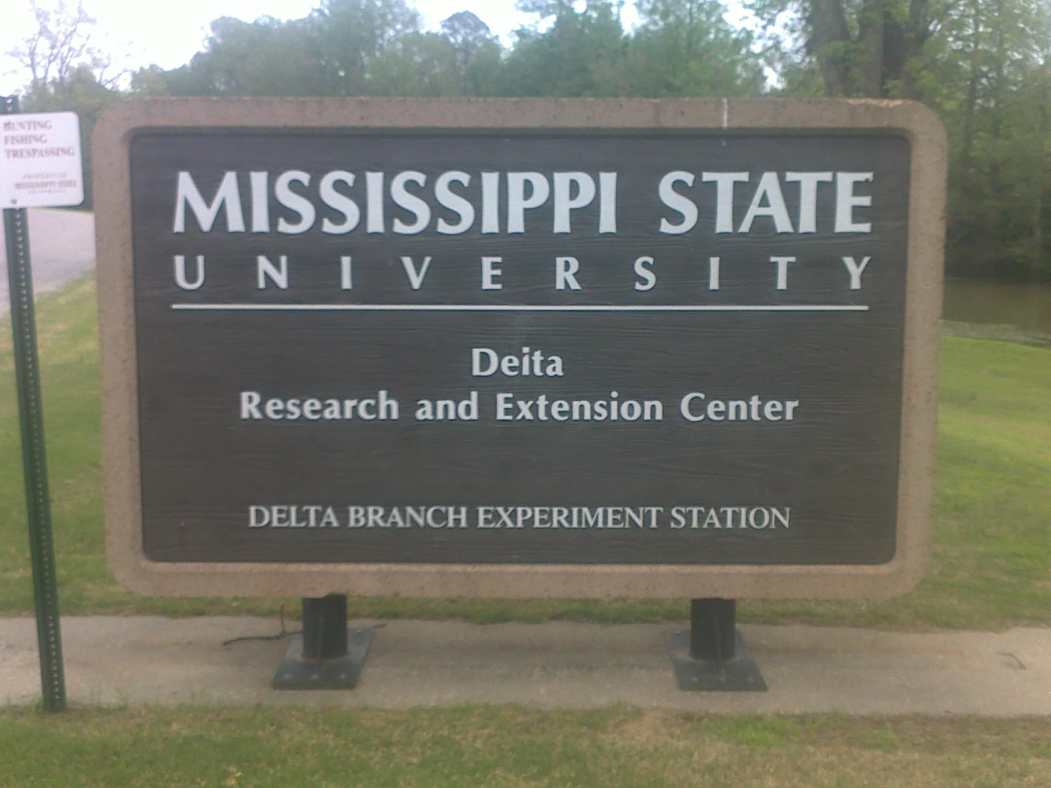 Mississippi State Extension Service in the Stoneville community